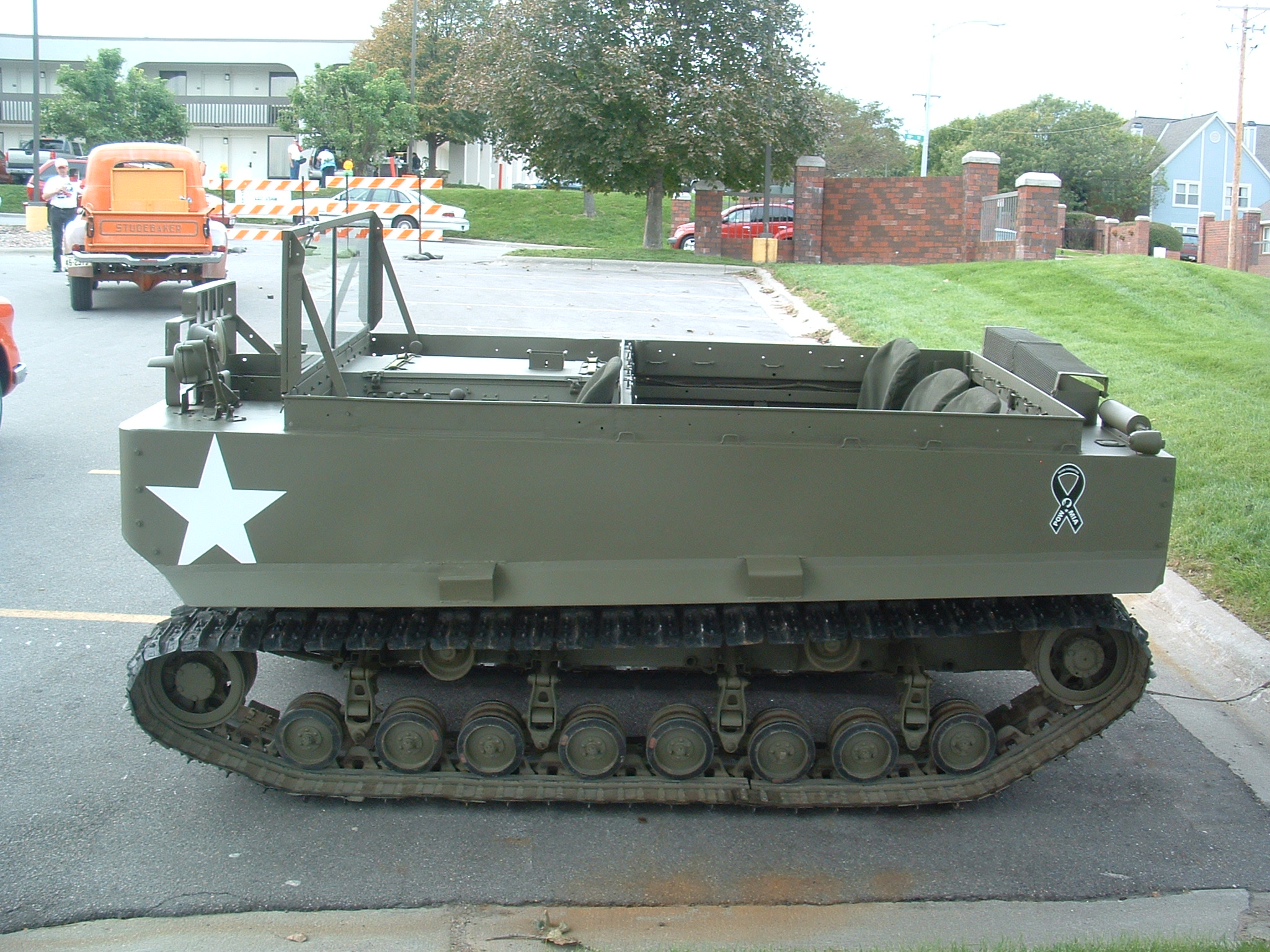 M29, took at a Studebaker convention in Omaha,NE